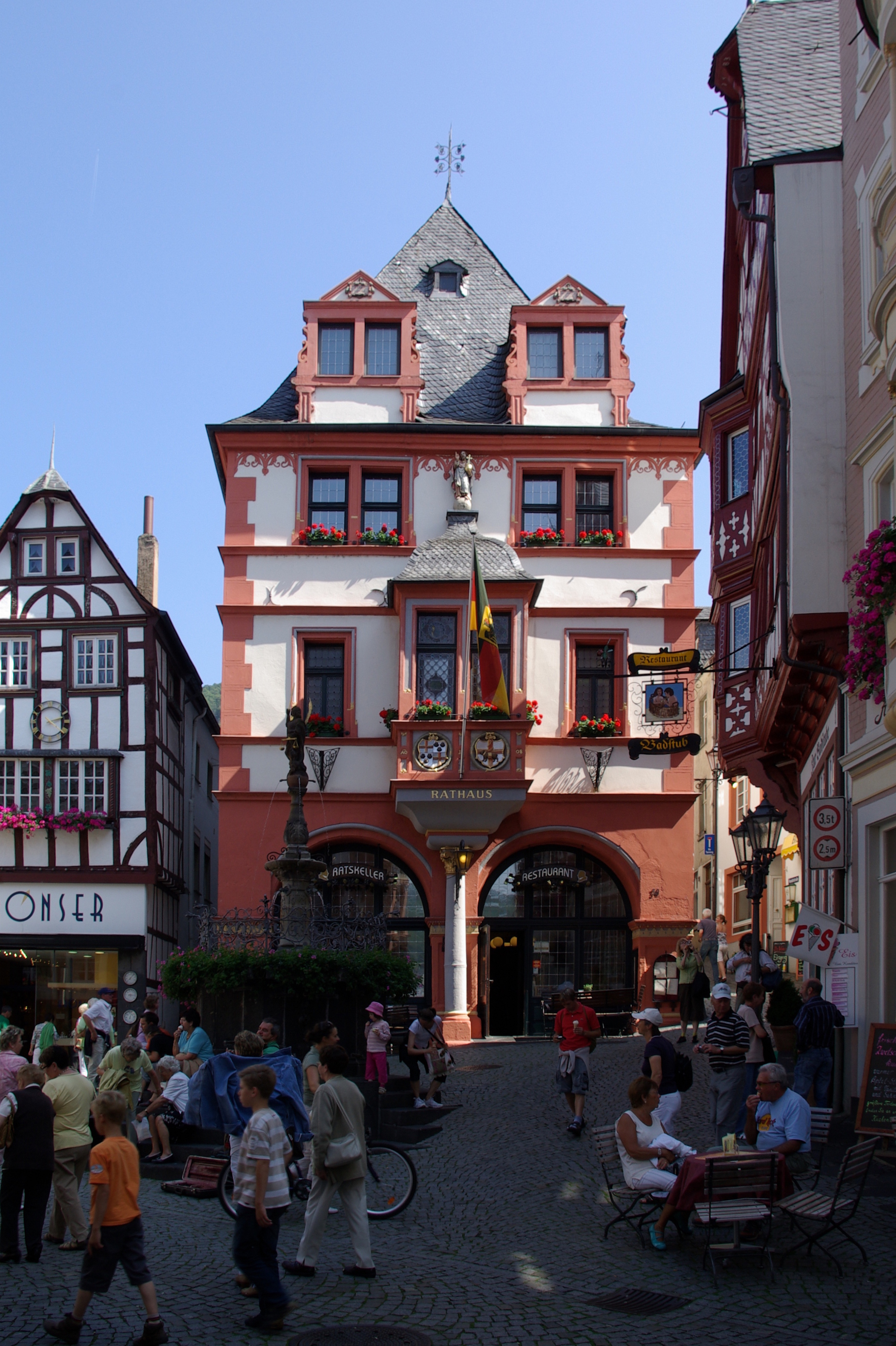 Germany, Bernkastel-Kues, Town hall, lower part used as restaurant, upper part office of the mayor